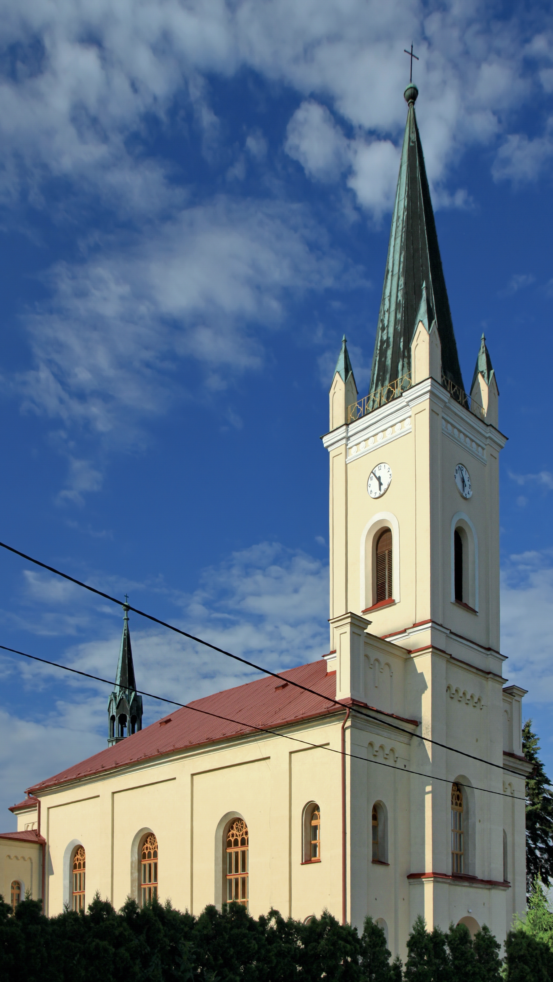 Church of Saint Mary Magdalene, Dětmarovice. Moravian-Silesian Region, Czech Republic.